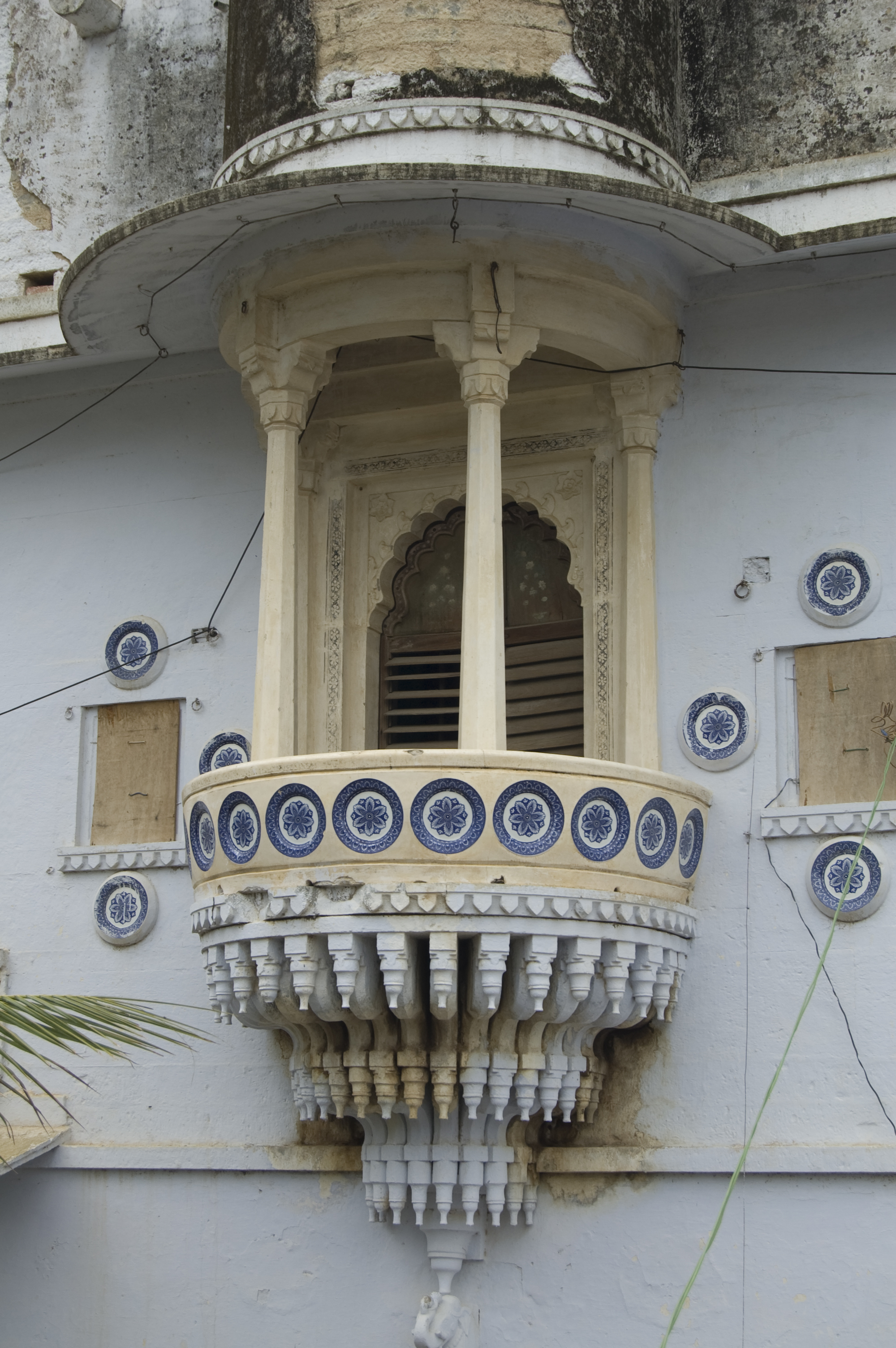 Athana Palace, Jharokha